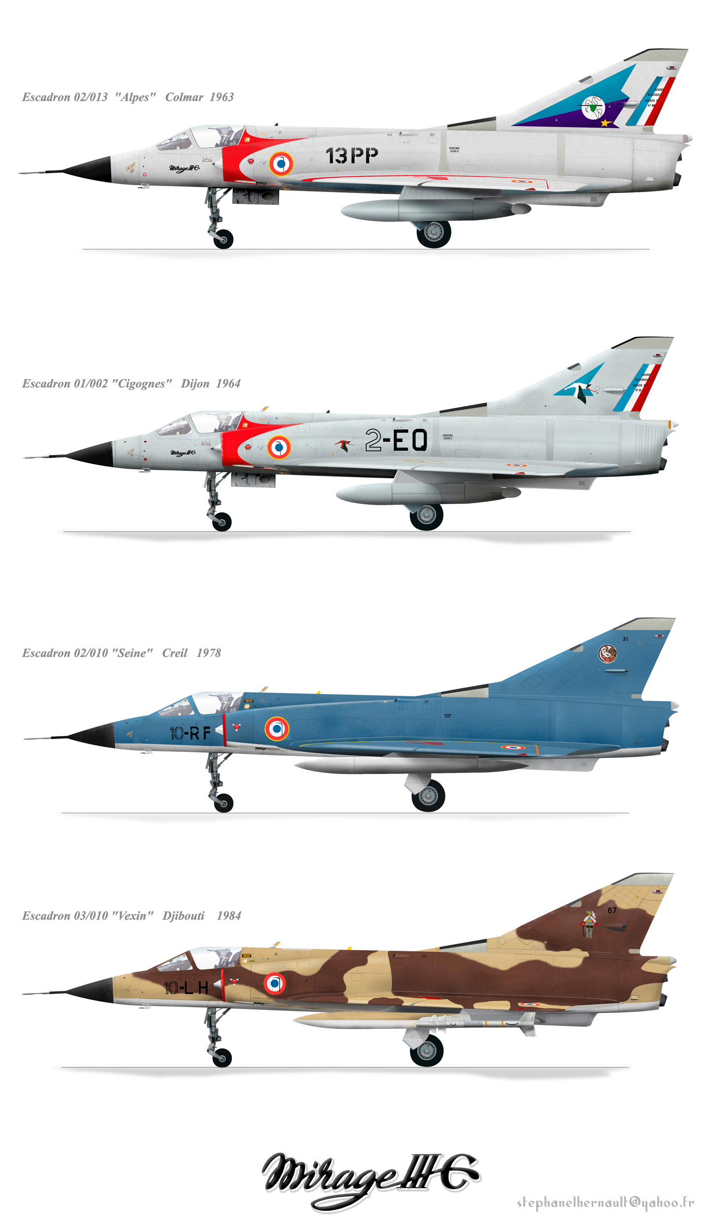 Mirage III C family French Air Force